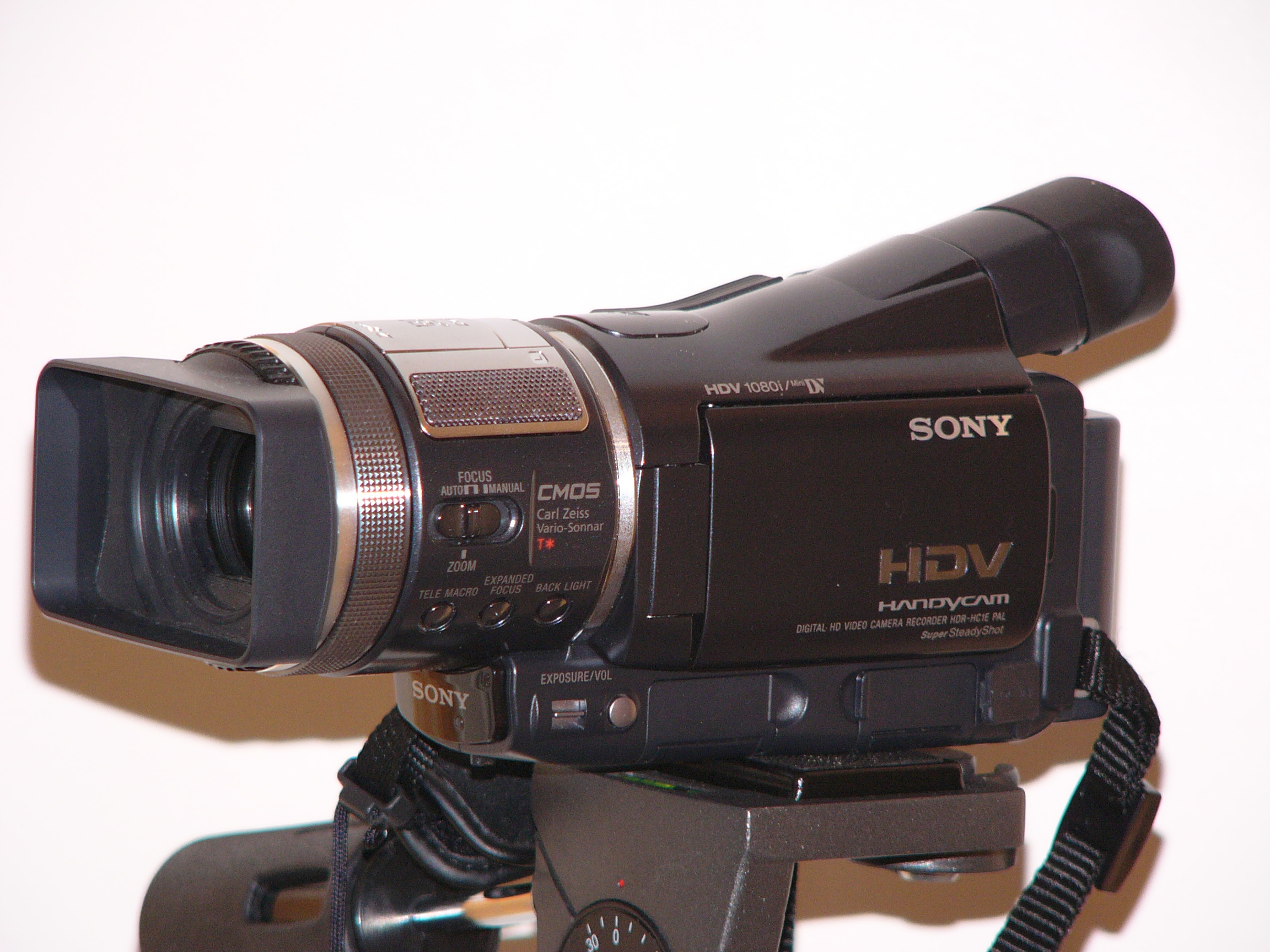 Sony HDR-HC1E Camcoder